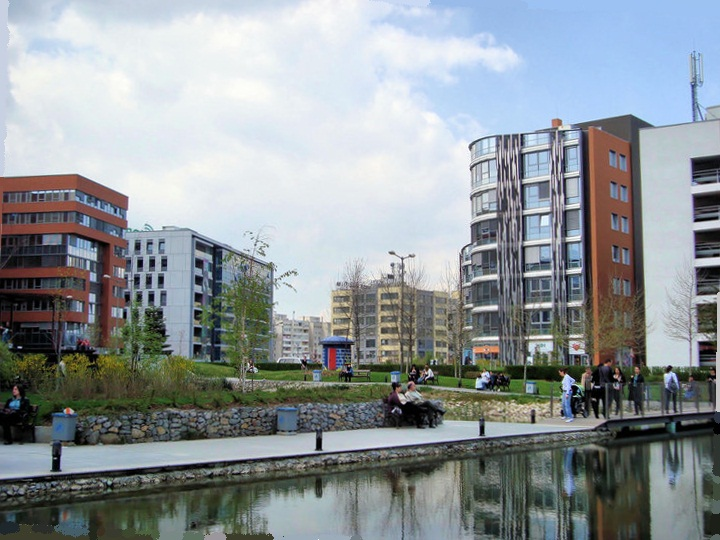 Business Park Sofia